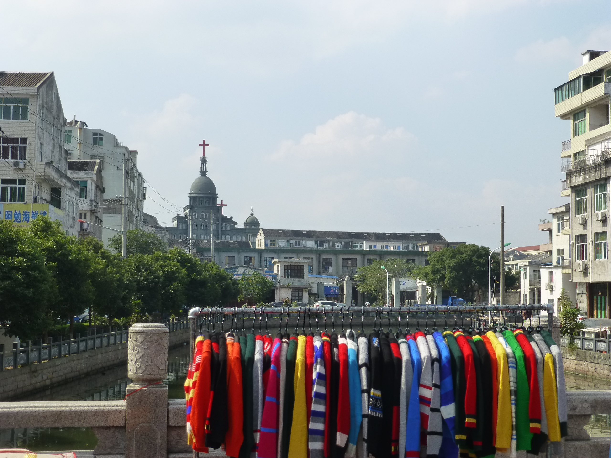 Longgang Town, Cangnan County, Zhejiang, China 中文（中国大陆）: 浙江省苍南县龙港镇